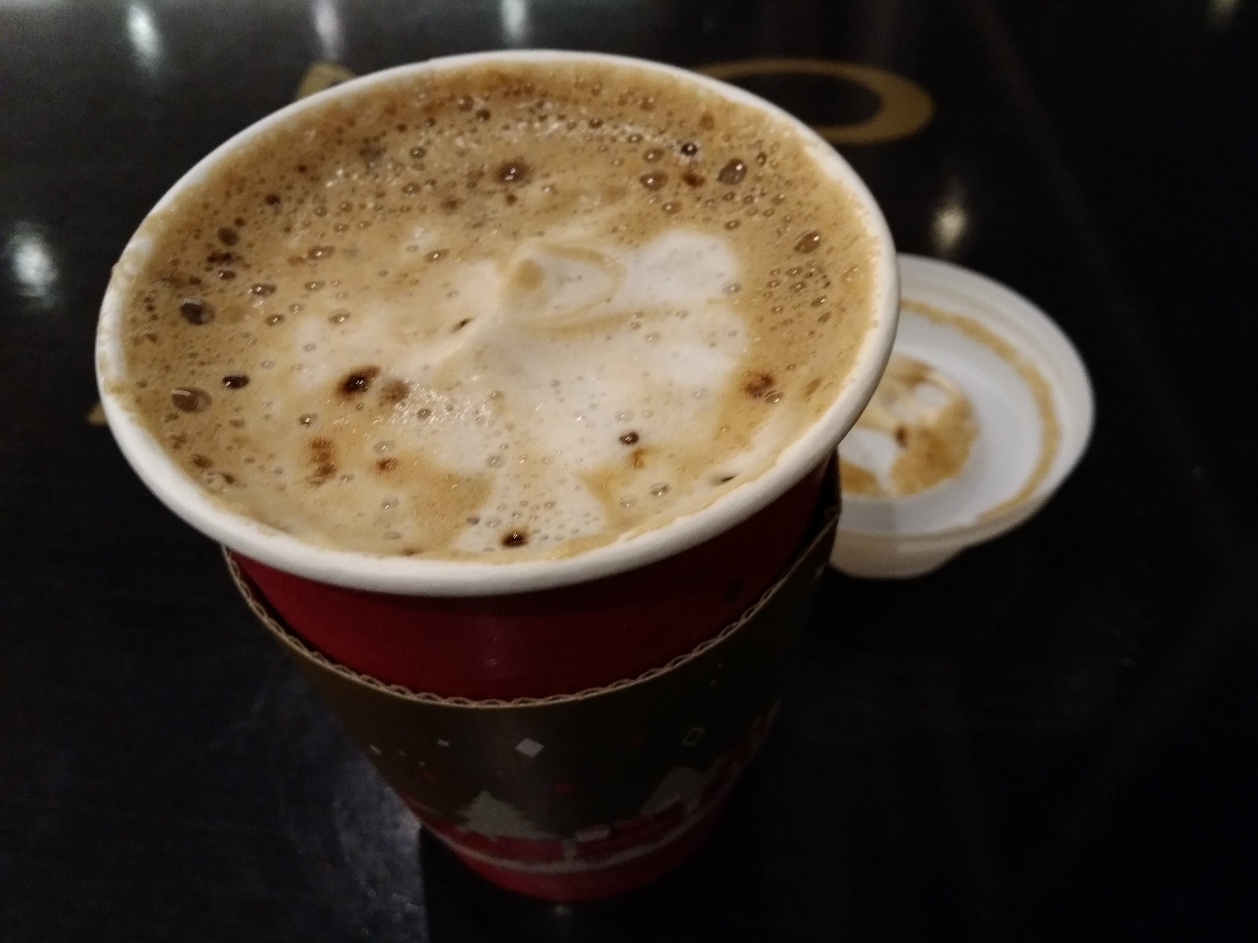 Orzo latte